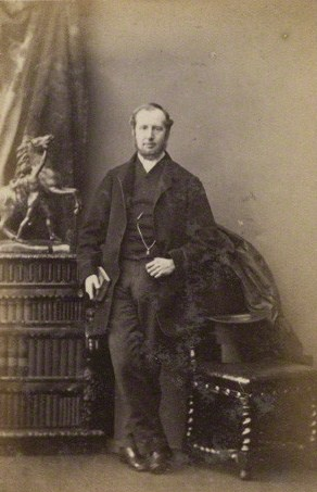 Portrait of William Kirkpatrick Riland Bedford (1826–1905), versatile English rector.